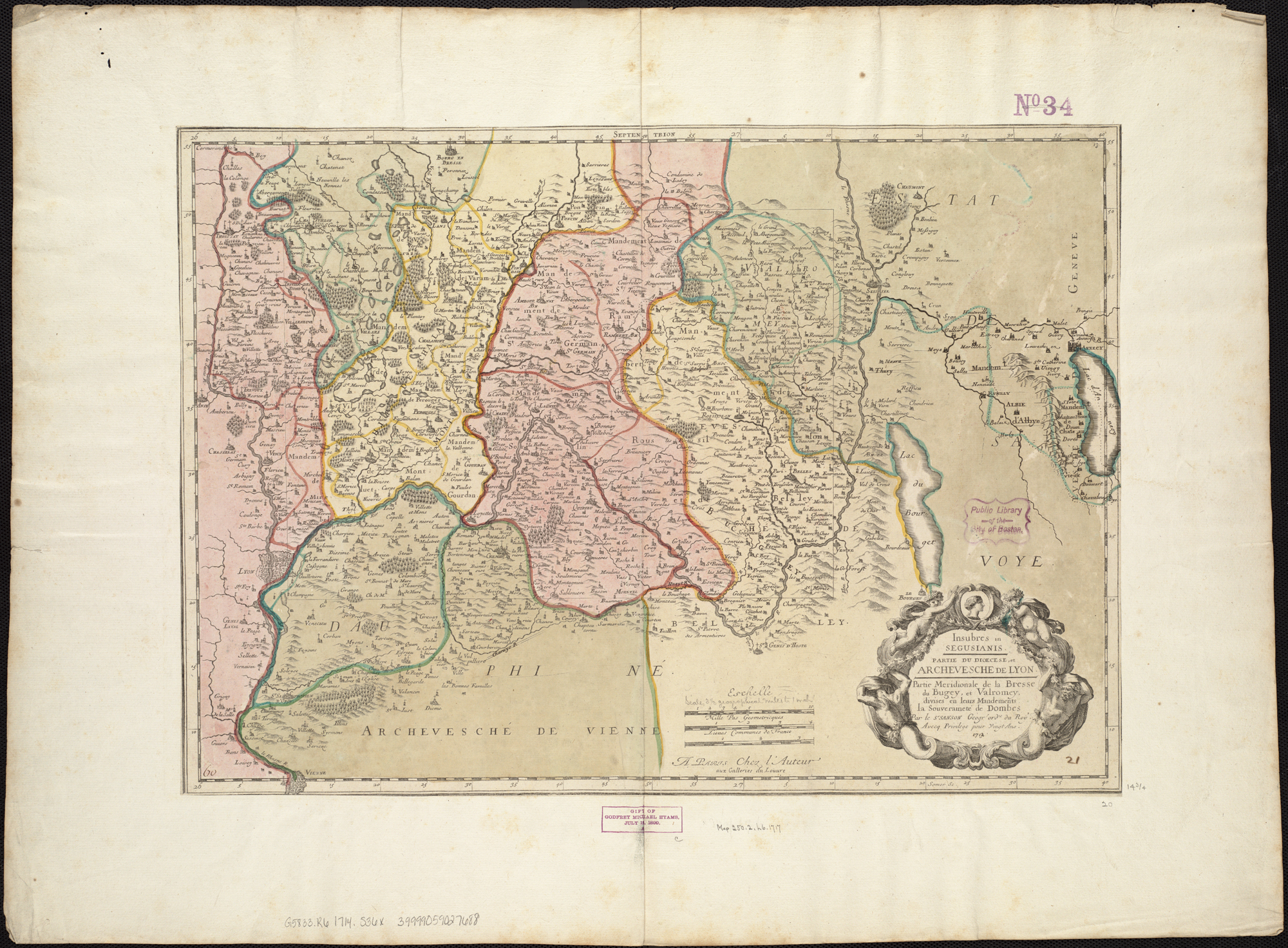 Zoom into this map at . Author: Sanson, Nicolas Publisher: Sanson, Nicolas Date: 1714 Location: Lyon (France), Rhône-Alpes (France) Dimension: 39x55cm Scale: ca. 1:211,000 Call Number: G5833.R6 1714 .S36x